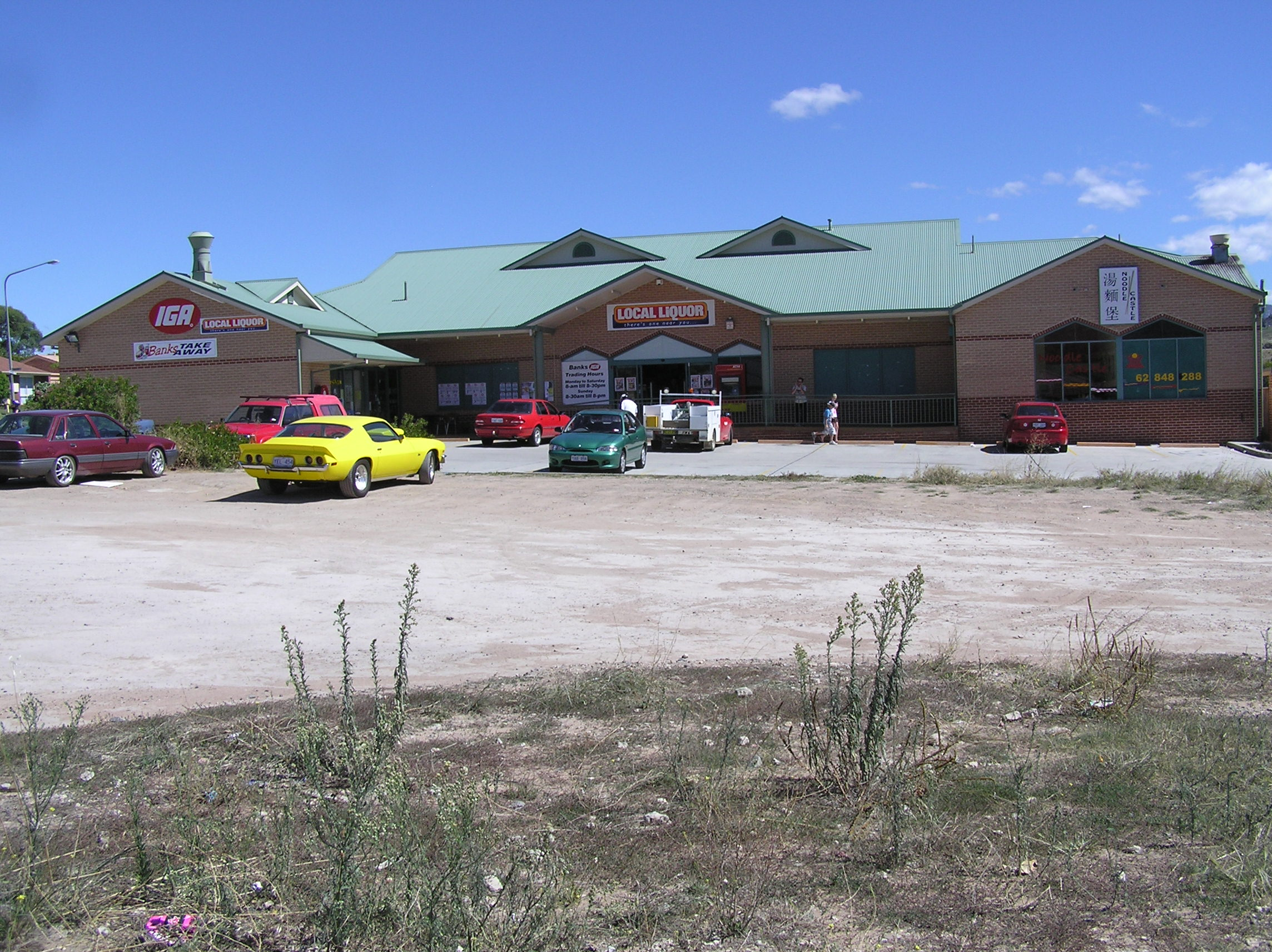 Photo of Banks, Australian Capital Territory shops from the northside